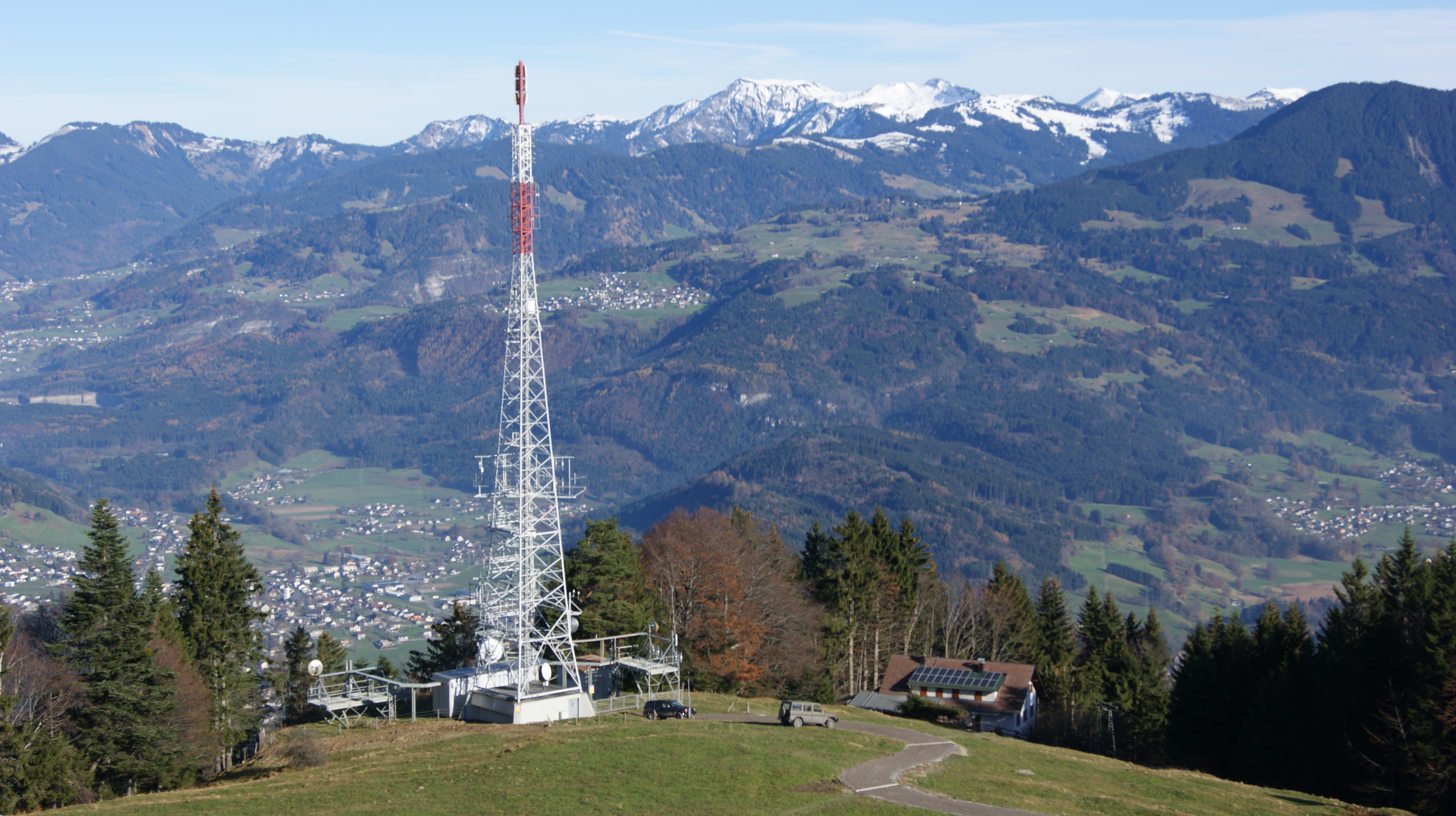 View from the Amerlugalpe (Frastanz) on the lower ORF transmission tower and the Feldkircher-Hut